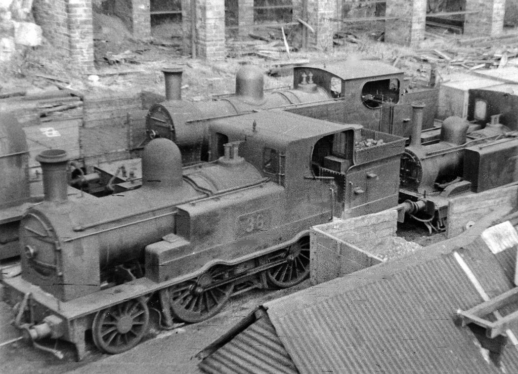 Cork, Albert Quay: locomotives stored outside the ex-CB&SC station. Another view of the locomotives shown in W6871 : Cork, Albert Quay: locomotives stored outside the ex-CB&SC station, with ex-Great Southern & Western class F6 2-4-2T No. 36 nearest. [Expert identification needed].